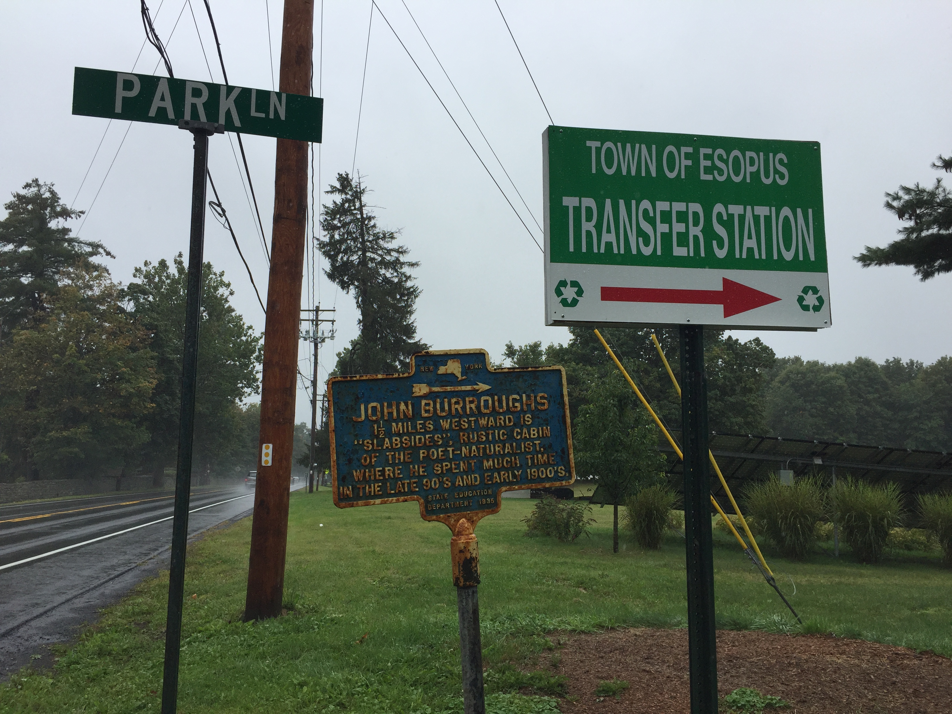 New York State historical marker for the road to Slabsides, John Burroughs' retreat